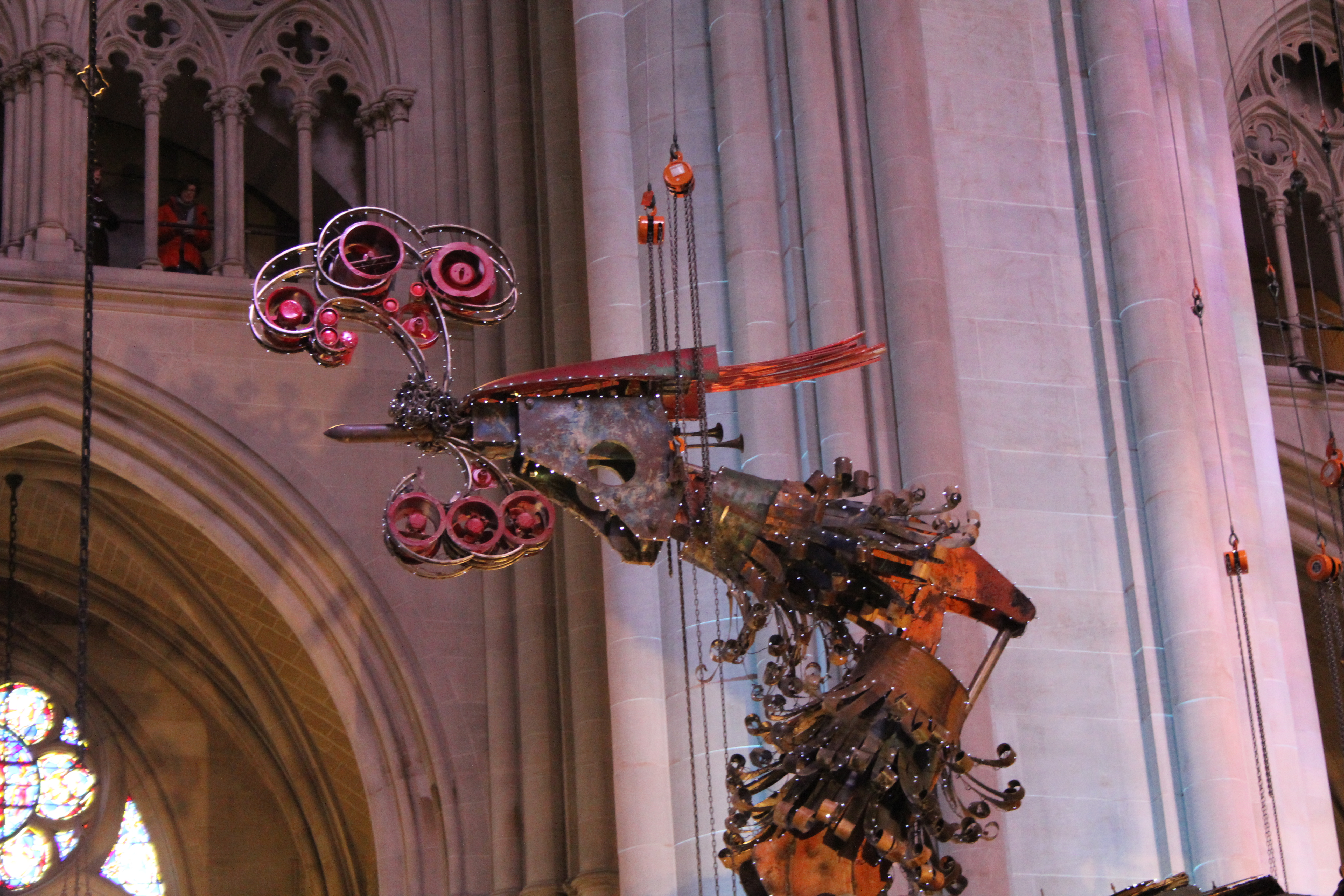 Phoenix sculpture by Chinese artist Xu Bing, displayed at the Cathedral of St. John the Divine in New York City. This is a detail of the male's head.